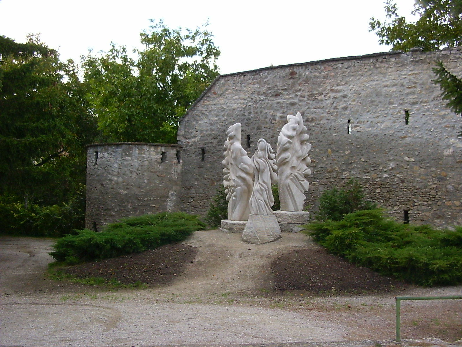 The city wall in Fertőrákos